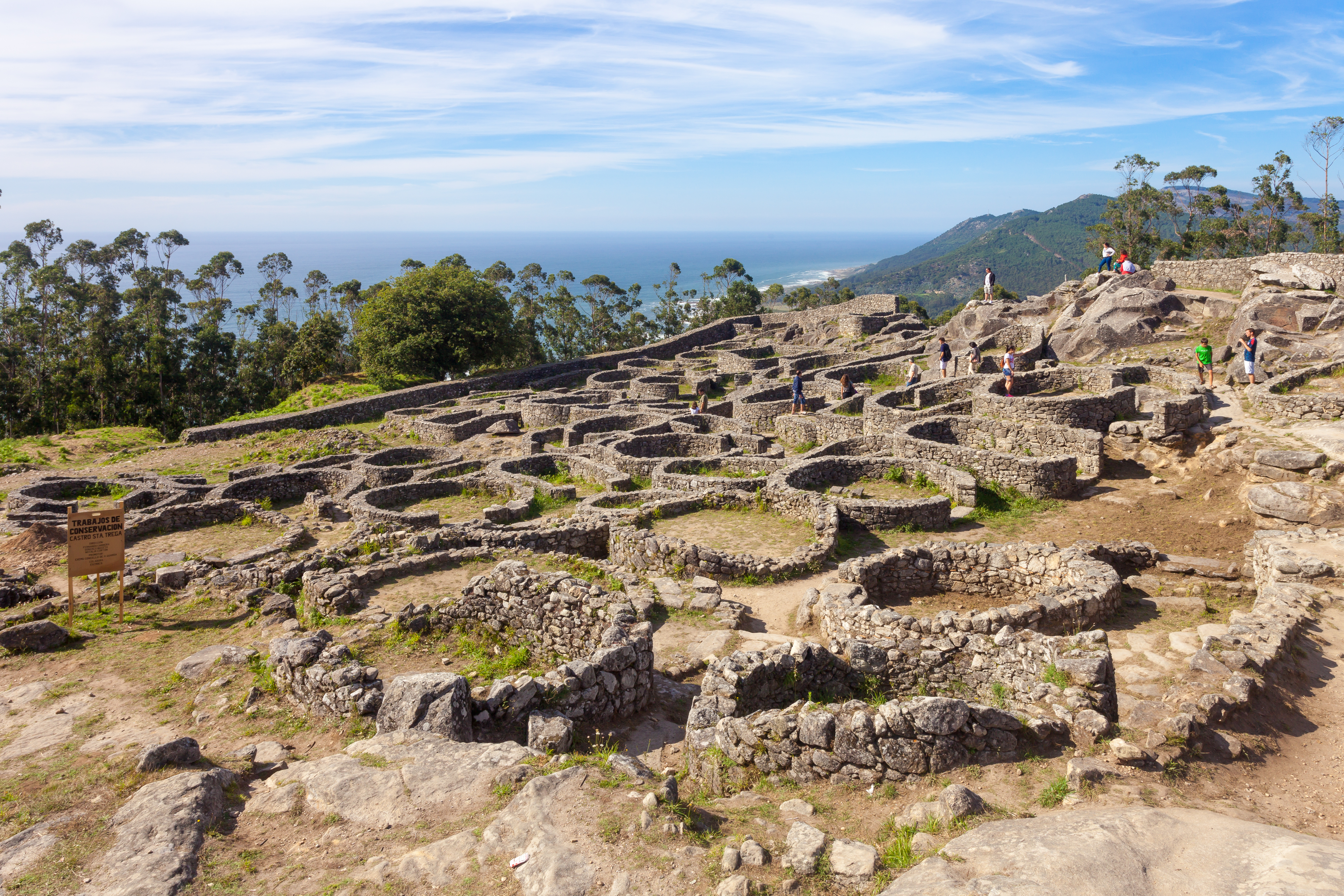 Hill fort of Santa Trega, A Guarda, Galicia (Spain)